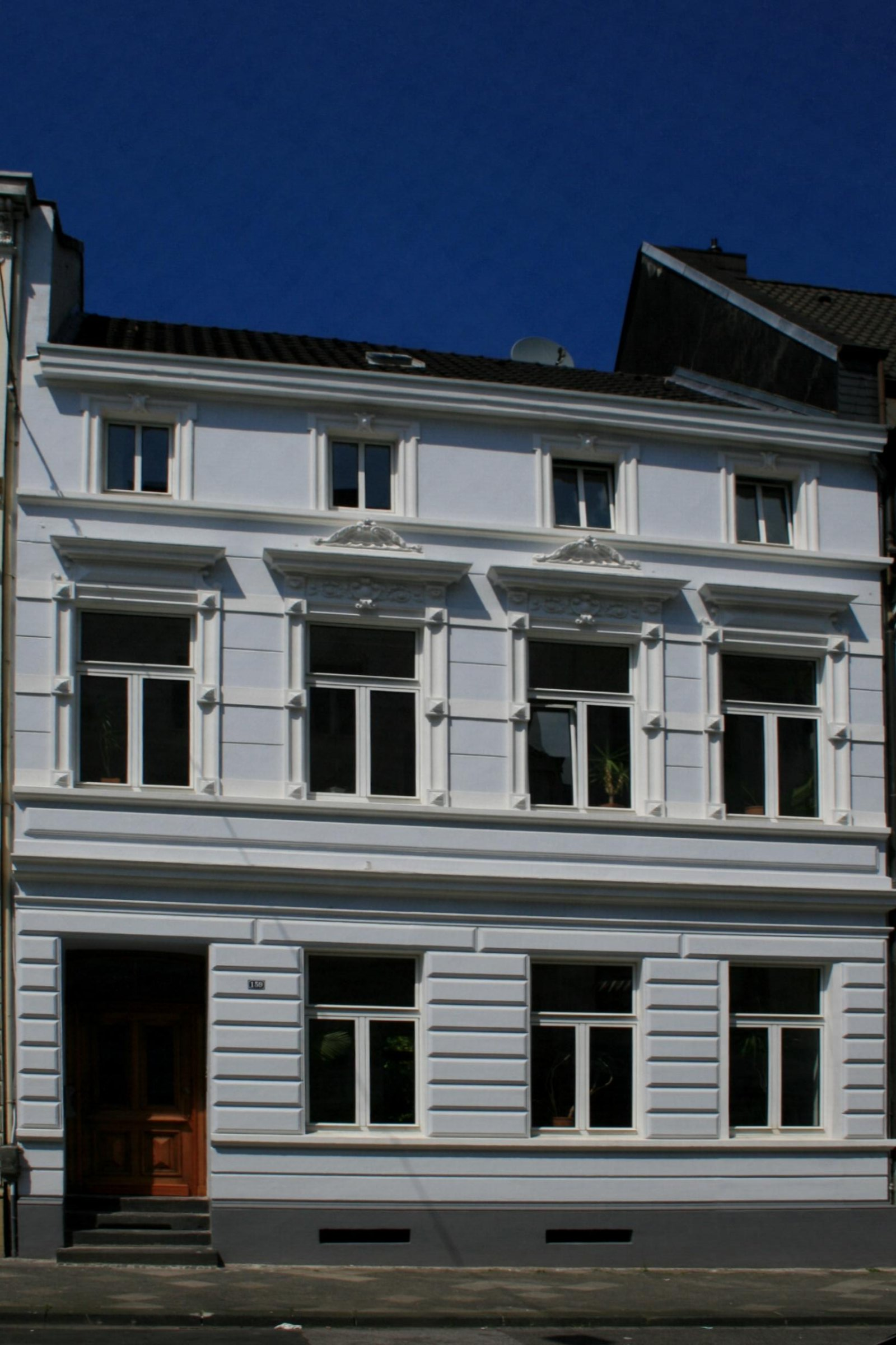 Cultural heritage monument No. K 015 in Mönchengladbach